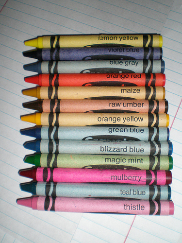 The thirteen retired Crayola crayon colors: Lemon Yellow, Violet Blue, Blue Gray, Orange Red, Maize, Raw Umber, Orange Yellow, Green Blue, Blizzard Blue, Magic Mint, Mulberry, Teal Blue, & Thistle.